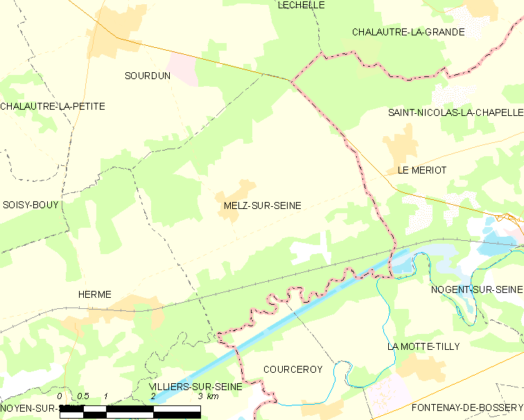 Map of French municipality Melz-sur-Seine